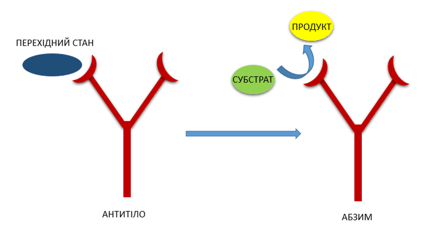 Ілюстрація схеми отримання абзиму методом 3